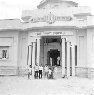 Photo taken by me in 1958 using B & W film camera. Photo shows a view of Rokhadia_hanuman temple.